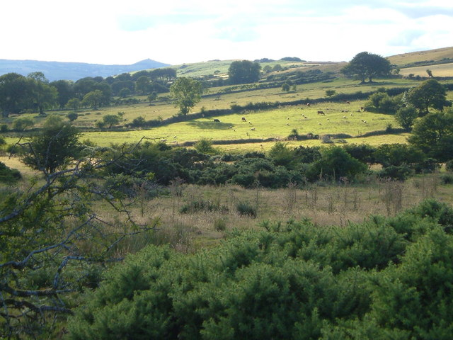 Colly Brook valley. Looking across the fields between Wedlake and Godsworthy. Beyond Smeardon Down(centre) is a distant view of Brentor.